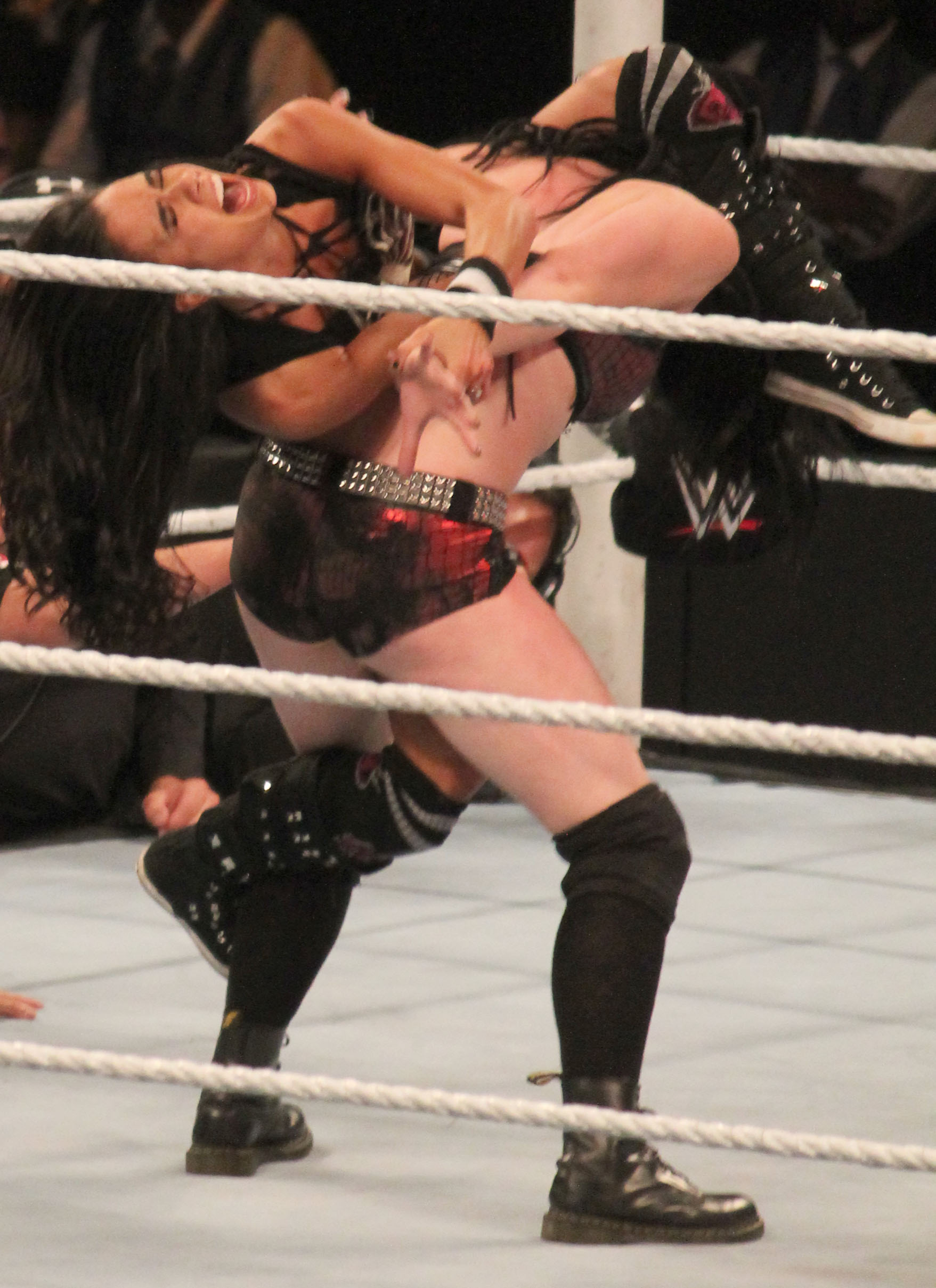 AJ Lee applying her Black Widow submission move to Paige at WWE's Night of Champions on September 21, 2014. Cropped and boosted brightness from the original.